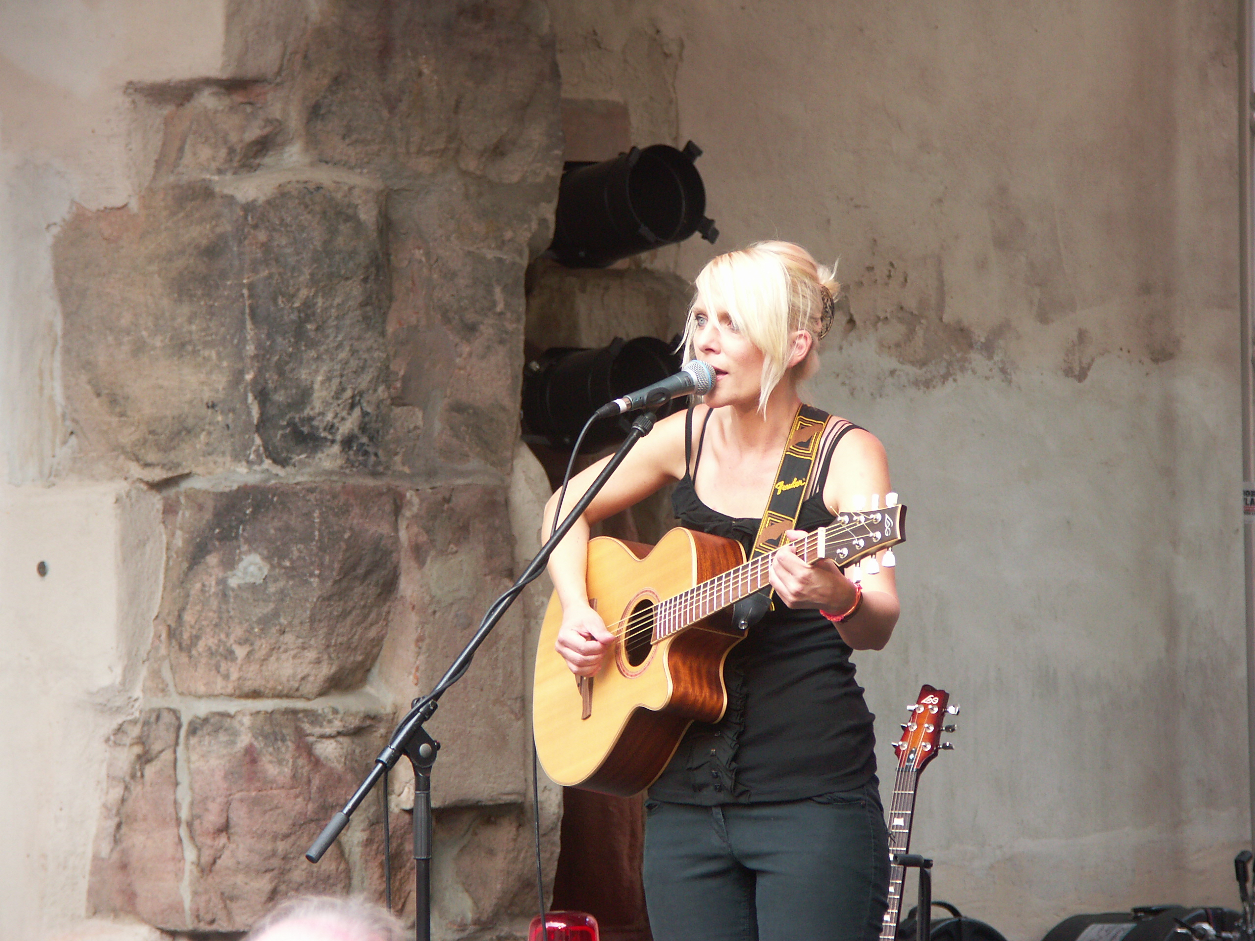 Katja Werker, singer/songwriter from Germany, performing at the free festival "Bardentreffen" 2009 in Nuremberg / Germany